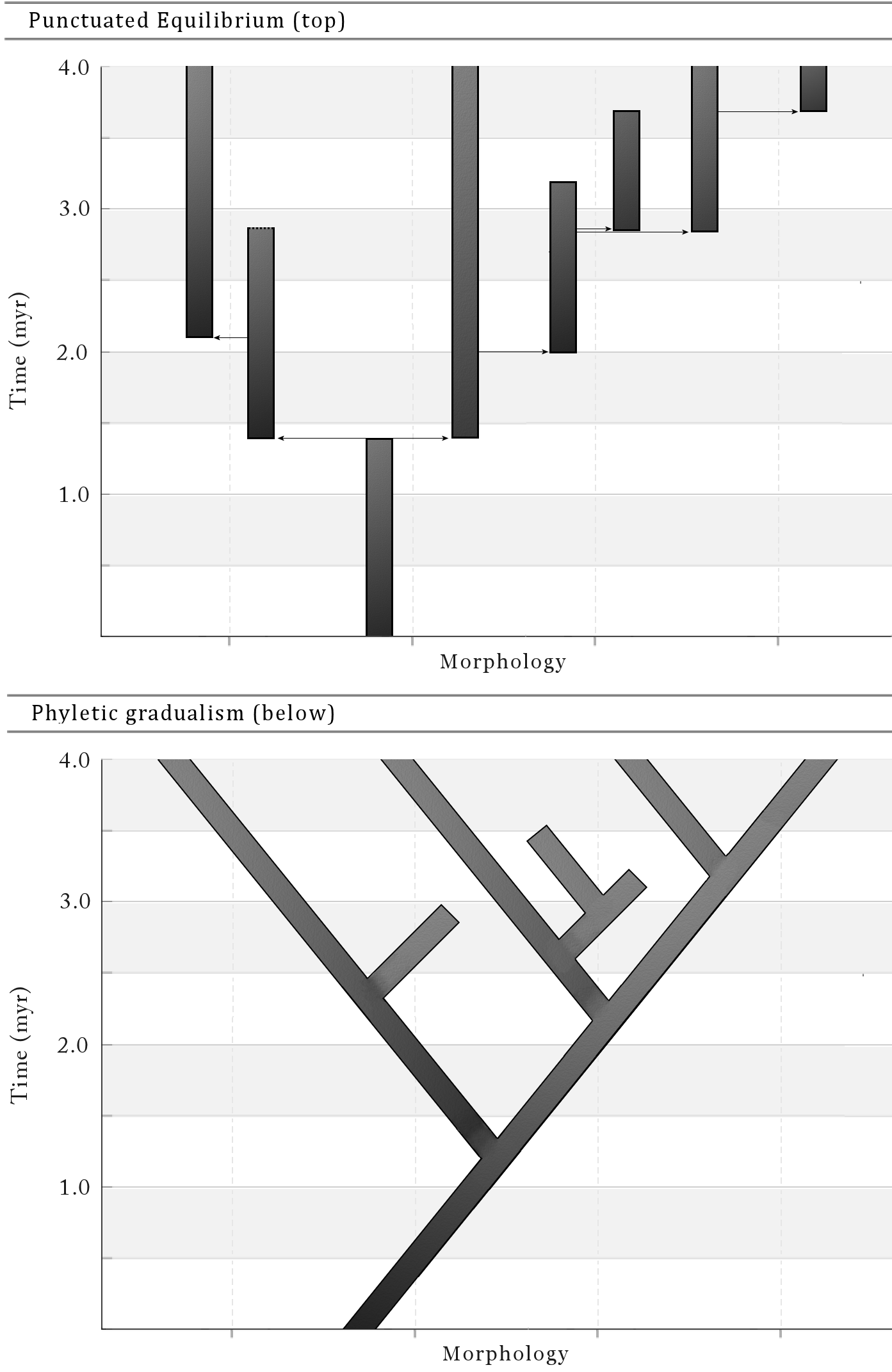 The model of punctuated equilibrium contrasted against the phyletic gradualism model of speciation.